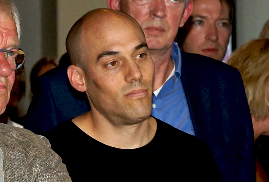 Joshua Oppenheimer - American and Danish based film director poet - at Filmhuset, Copenhagen during the opening of "Sculpting the Past", featuring his documentary "The Act of Killing" as a documentary-installation